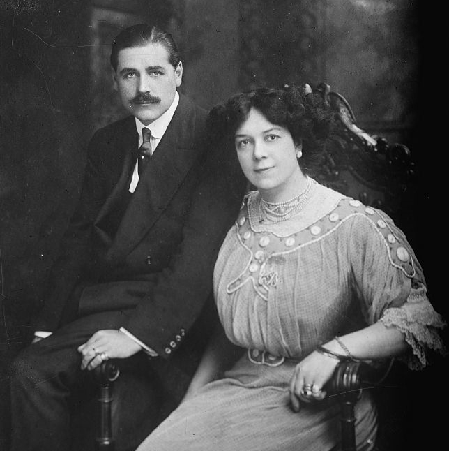 English concert and opera singer Clara Butt (1872–1936) with her husband, concert singer Kennerley Rumford (1870-1957)